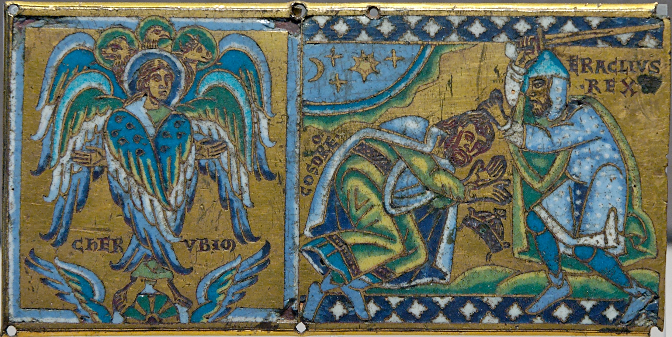 Cherub (of Ezekiel vision, not putto) and Byzantine Emperor Heraclius receiving the submission of the Sassanid king Khosrau II; plaque from a cross. Champlevé enamel over gilt copper, 1160-1170, Meuse Valley.